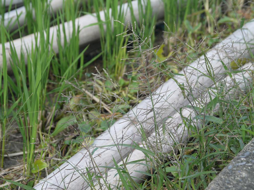 Leptochloa chinensis(Poaceae) Japanese name:Azegaya：アゼガヤ Date;2009,10.10;Tanabe City, Wakayama prefecture, Japan Author;Keisotyo